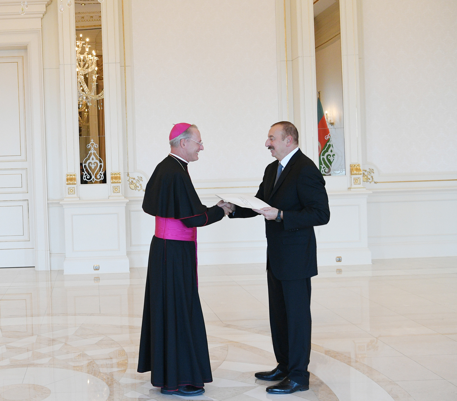 Ilham Aliyev received credentials of Vatican's Apostolic Nuncio